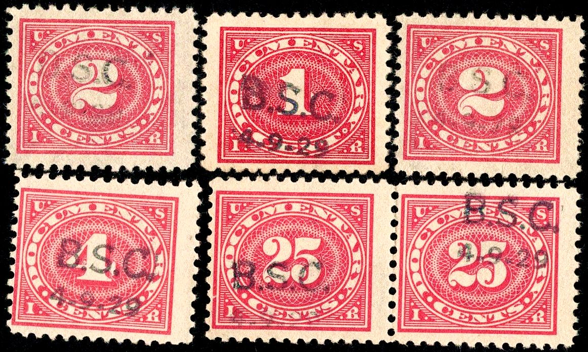 Image of set of six US revenue stamps, 1917 issues